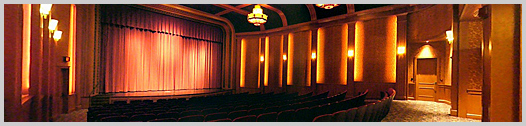 Packard Campus Theater (Library of Congress) in Culpeper, Virginia